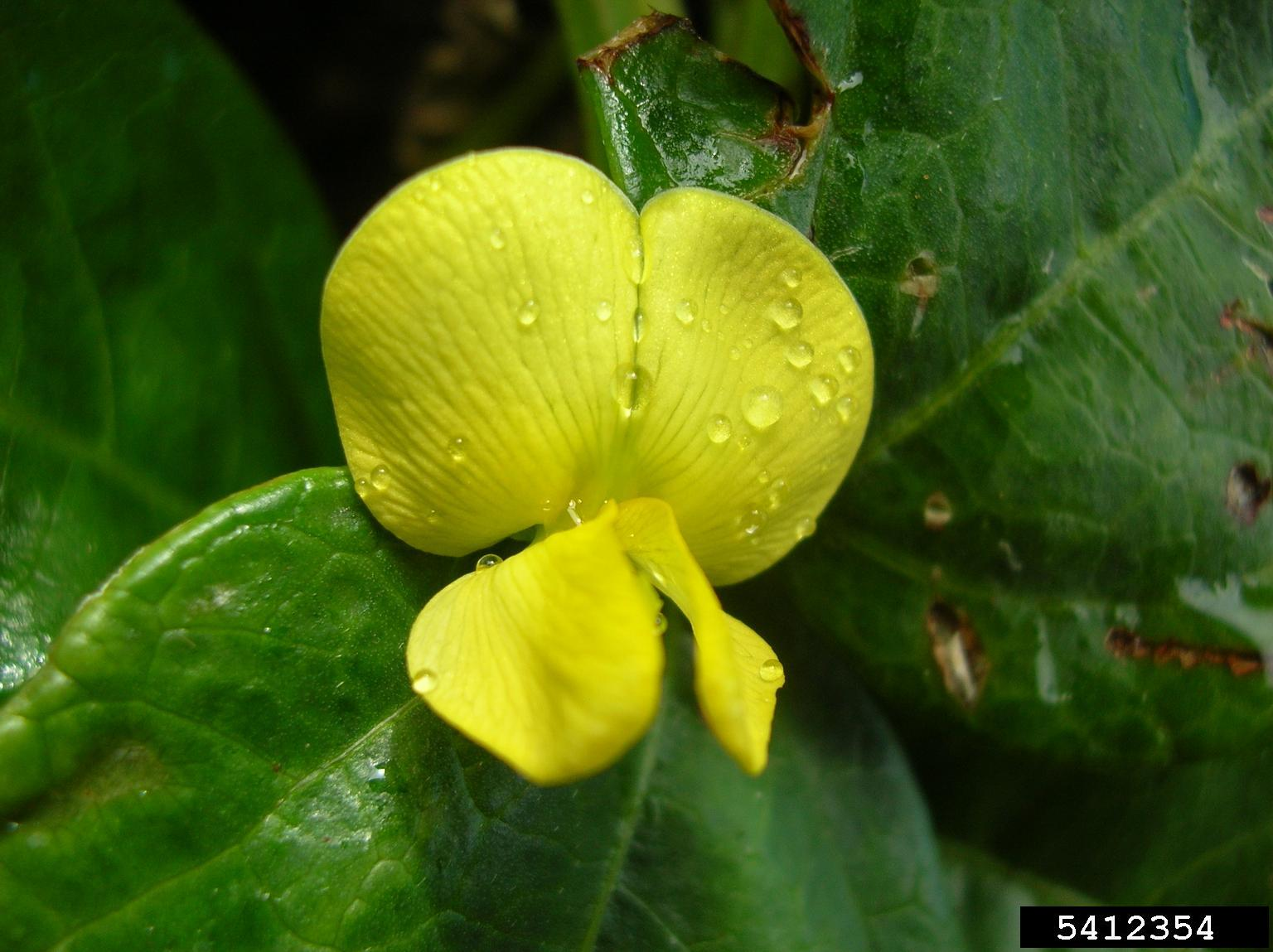 Vigna marina Descriptor: Flower(s) Image location: Alau, Maui, Hawaii, United States